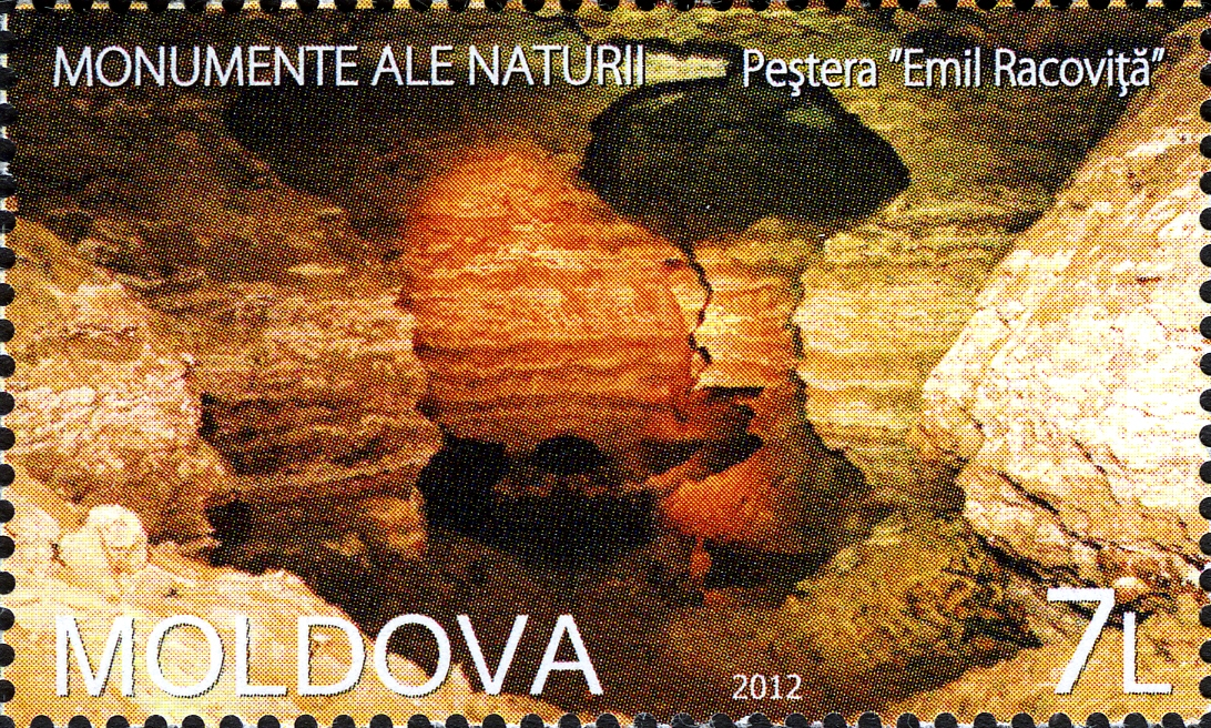 Stamps of MoldovaAzərbaycanca: Moldova poçt markası